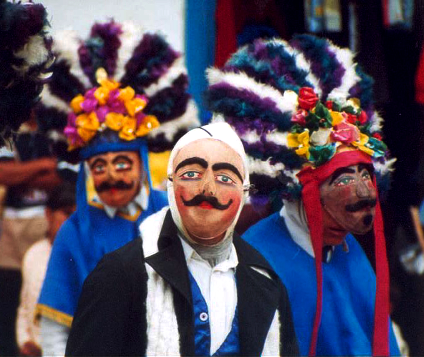 Huanquilla Dancers